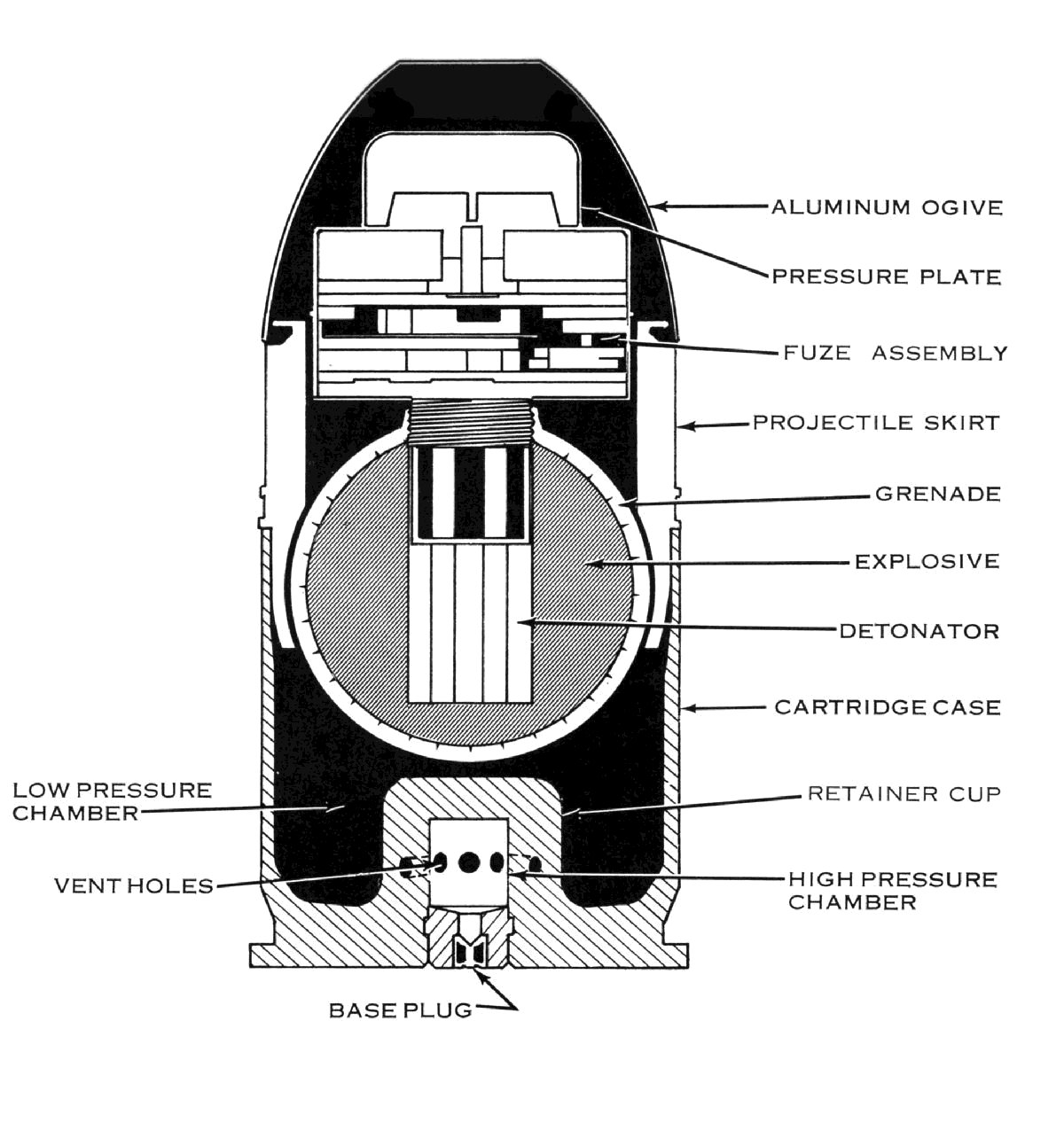 Cut away drawing of the 40mm HE grenade fired by the M79 and M203